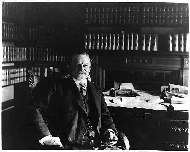 Charles James Faulkner, US Senator from West Virginia